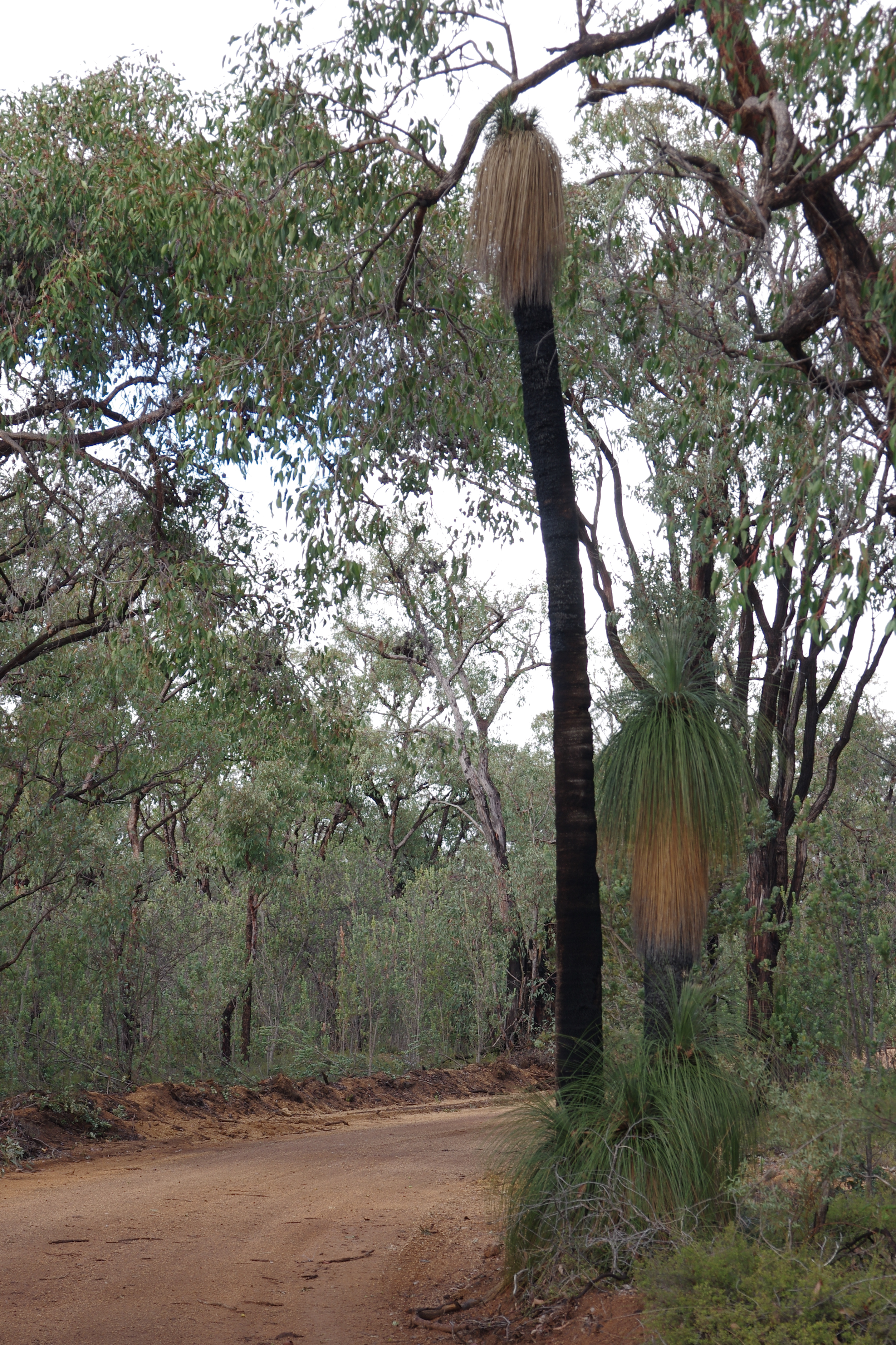 Avon Valley National Park Xanthorrhea drummondii (Grasstree)